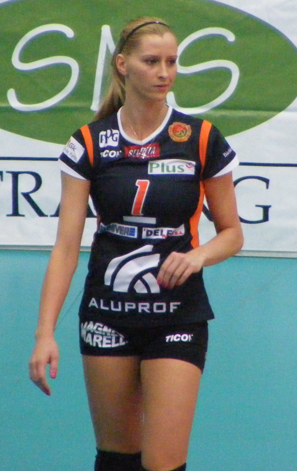 Anna Baranska, polish volleyball player